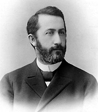 was a Russian physicist and honorary member of the Soviet Academy of Sciences (1920). He is most noted for being one of the first to study the gravitational lens effect.[1]